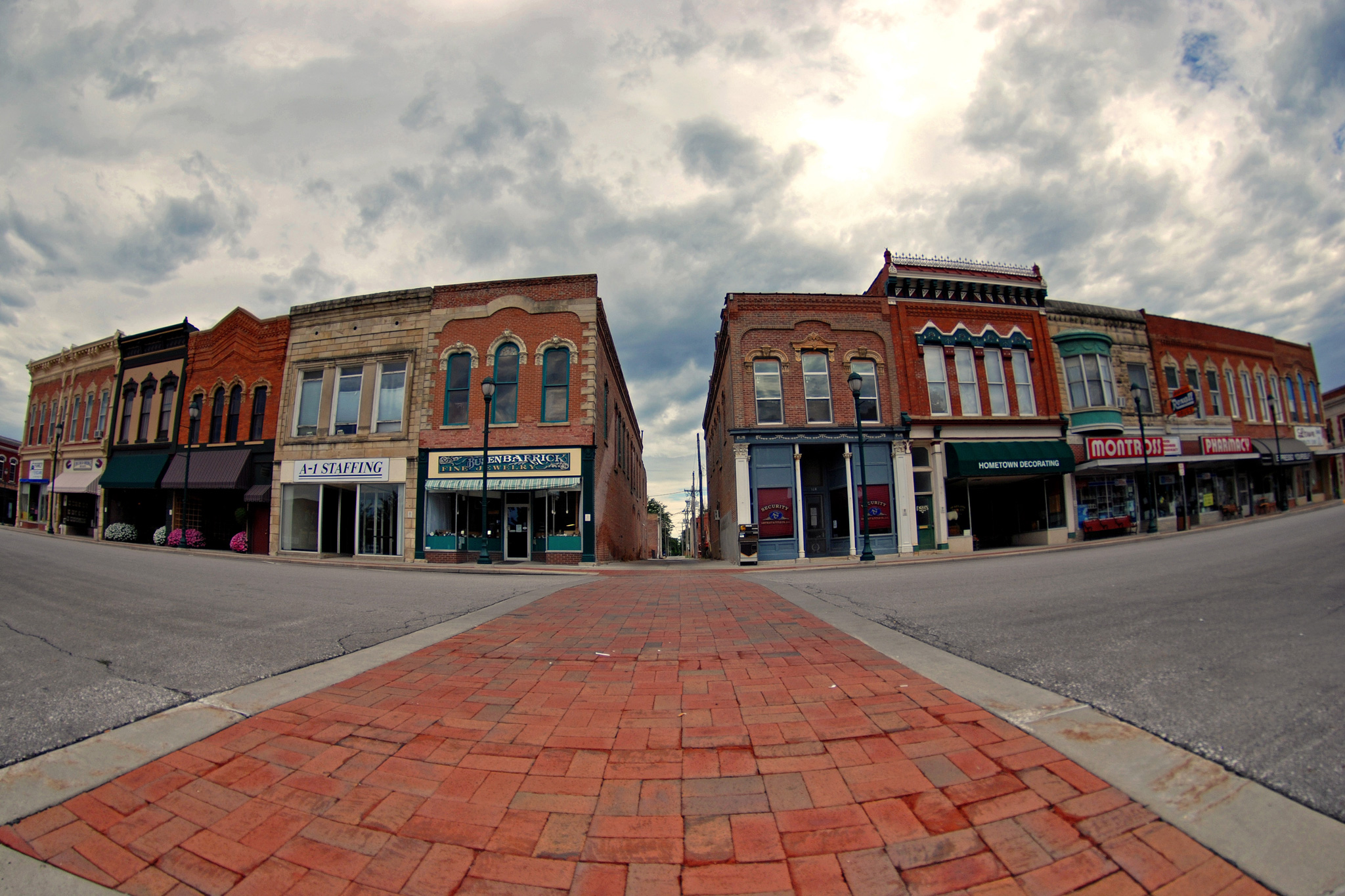 Winterset North First Avenue view. Winterset, Iowa. USA.